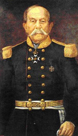 A portrait of Constantine Vlachopoulos in military uniform wearing a medal.